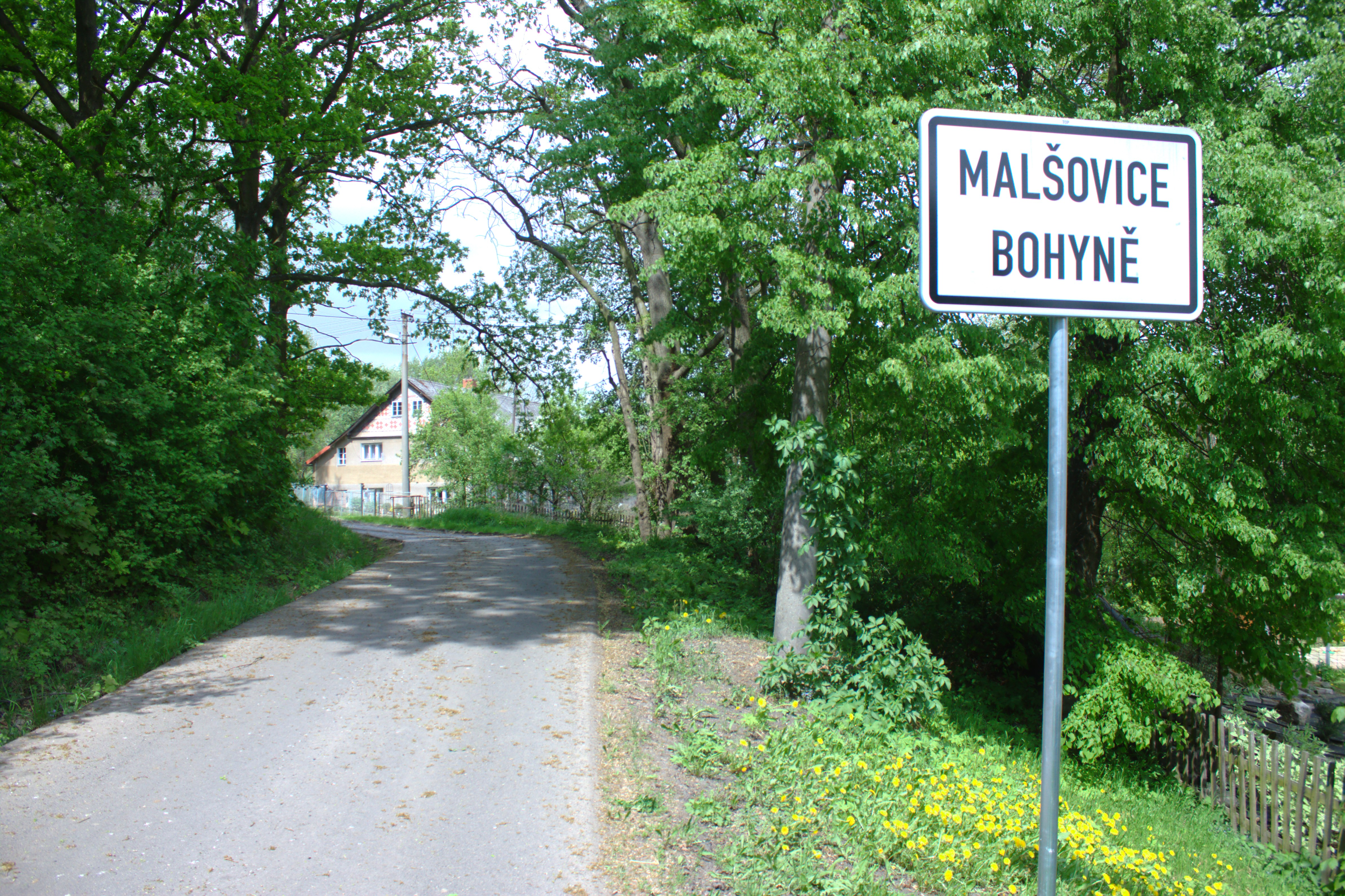 Stará Bohyně village limit, CZ